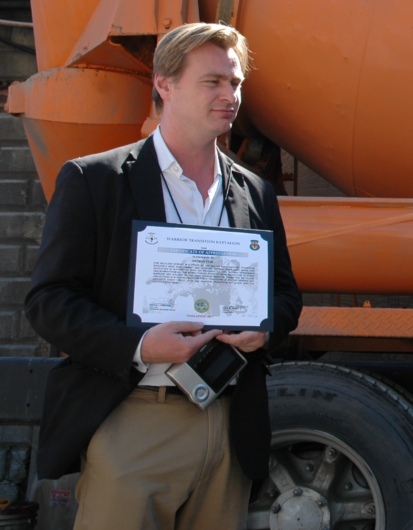 Marine Sgt. Gabriel Ledesma presents a Certificate of Appreciation to new Batman movie The Dark Knight Rises actor Joseph Gordon-Levitt as director Christopher Nolan looks on during a break from filming on set here Aug. 17.